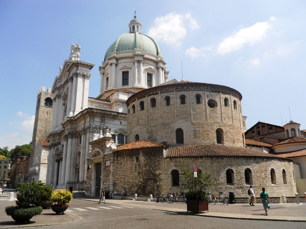 Brescia, Duomo vecchio e nuovo